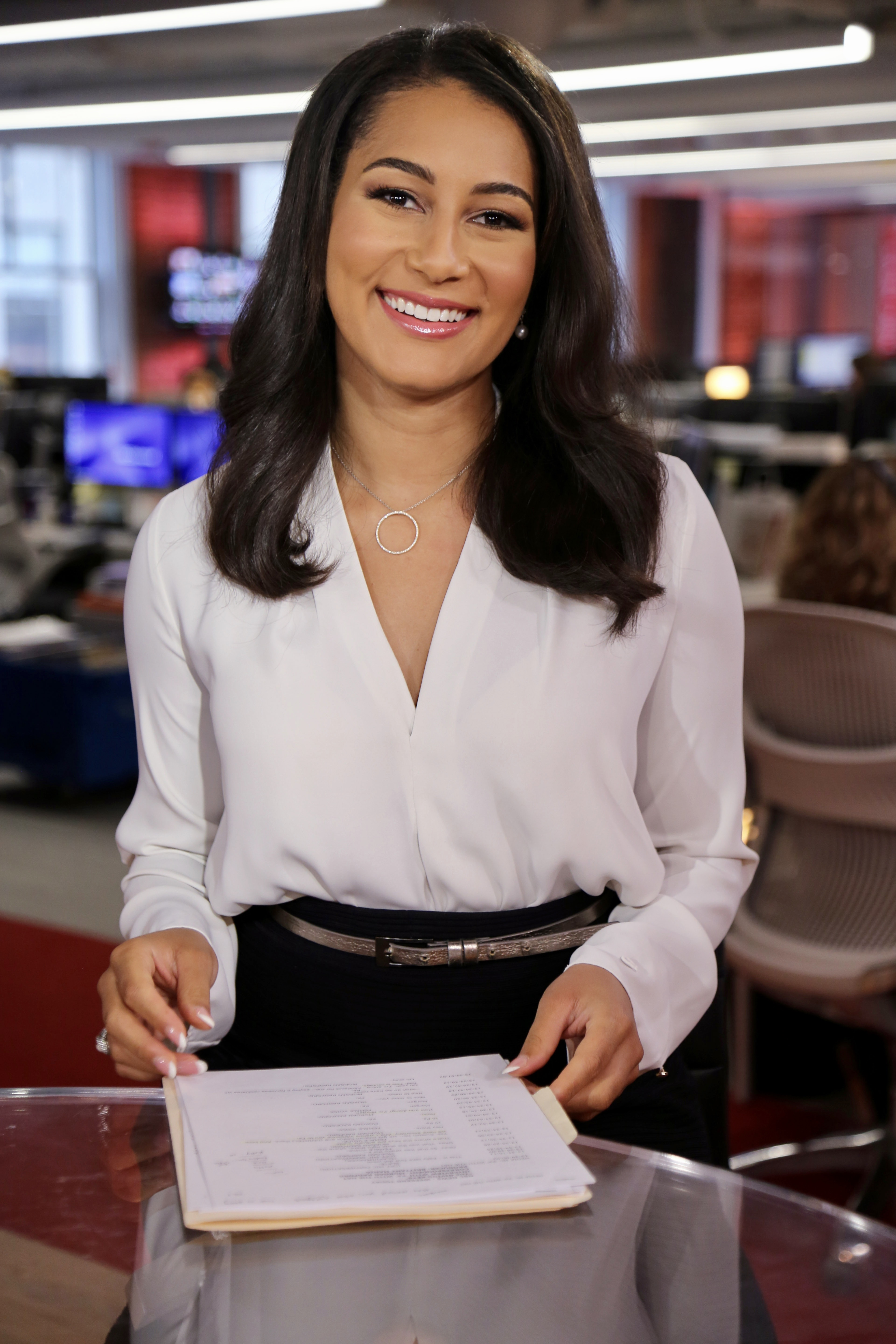 Morgan Radford Correspondent NBC News